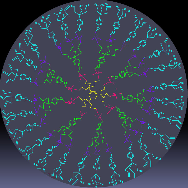 Dendrimer with 81 allyls branches. G2-81-allyl-dendrimer. Organo-silicon dendrimer